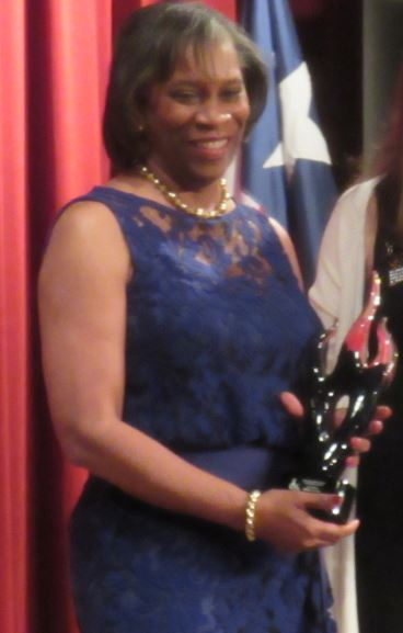 Dr. Adena Williams Loston at the United Communities of San Antonio 62nd Awards Dinner on March 8, 2016.